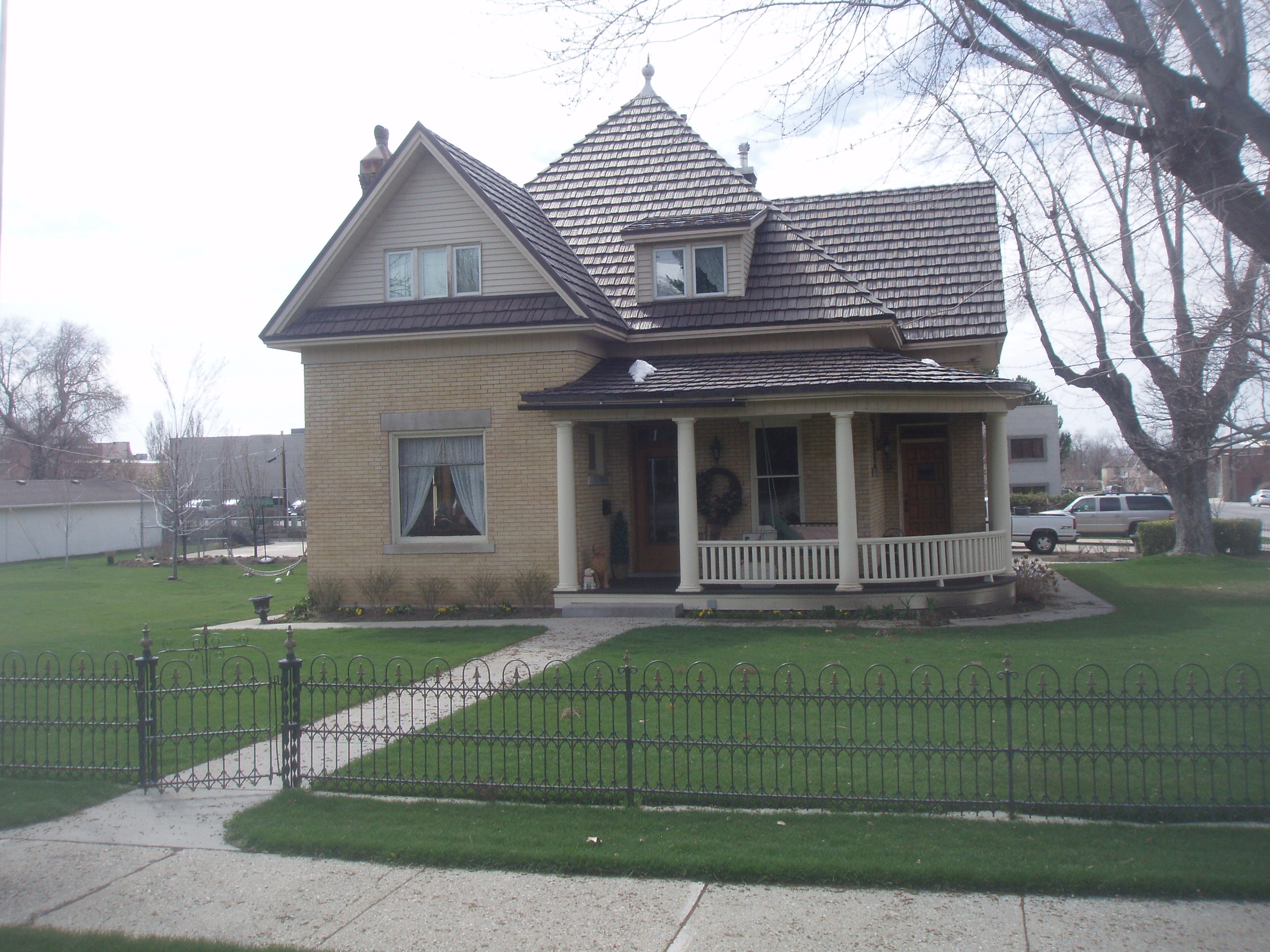 A house in the Bountiful Historic District, in Bountiful, Utah, United States.